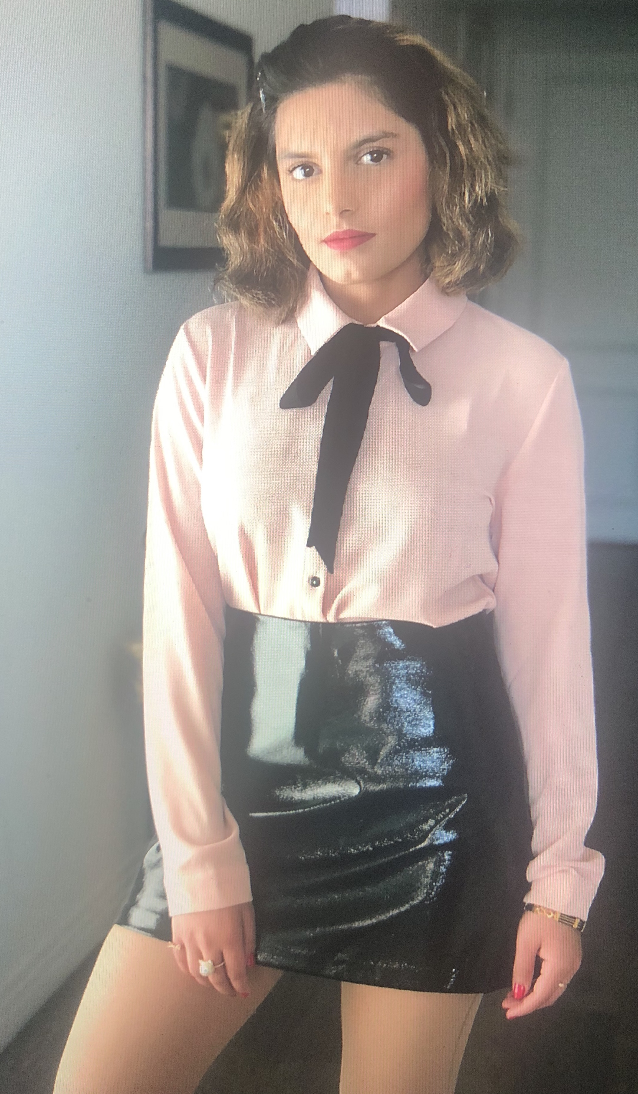 Shannon K in 2018